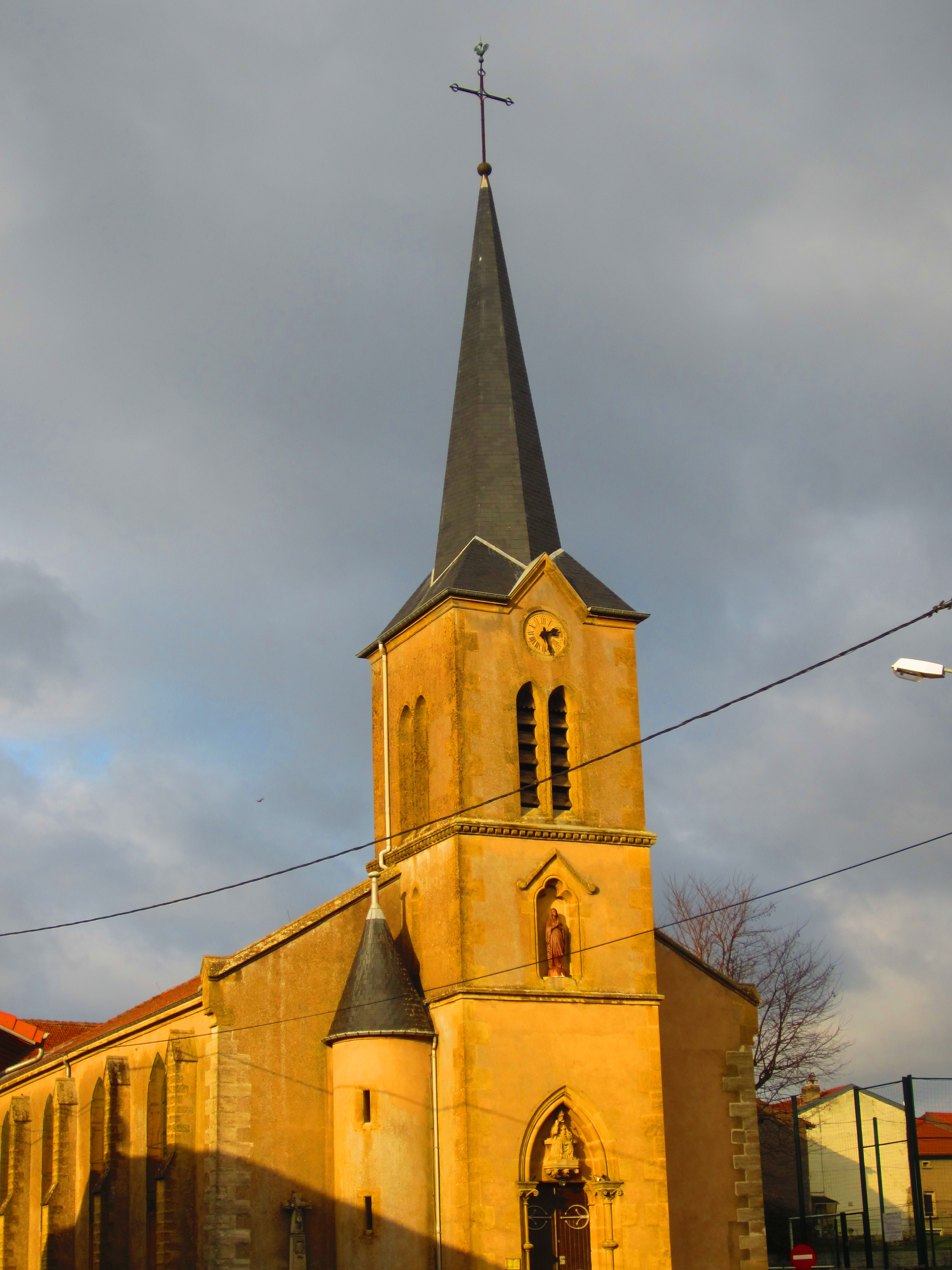 Oron church